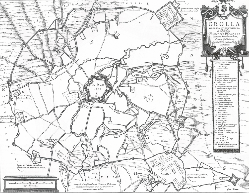 Siege of Groenlo (Grol) in 1627